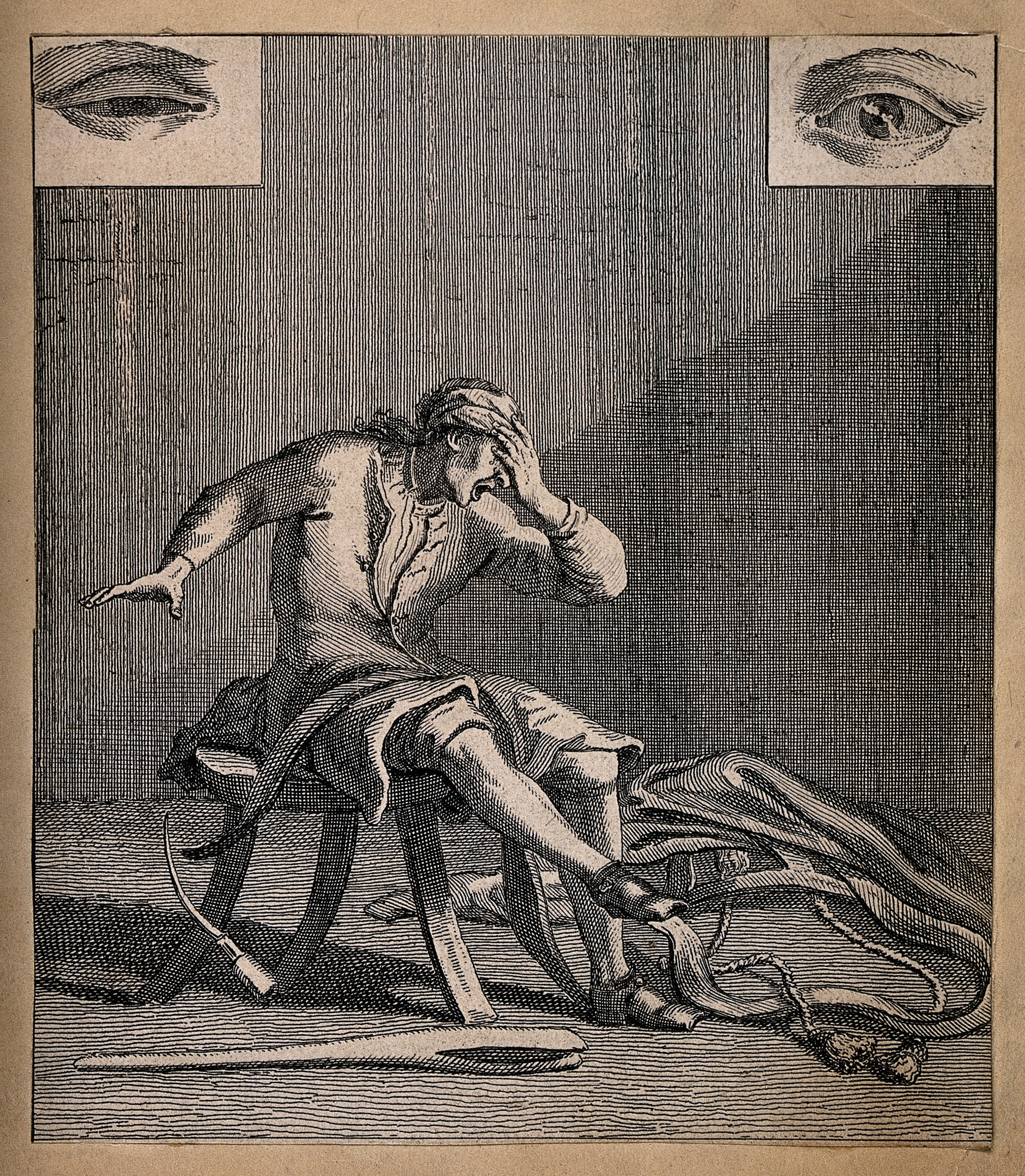 A man in a workshop with a hand over his eyes in anguish while dropping a sharp tool with the other hand; two details of eyes appear in the top corners. Line engraving. Iconographic Collections